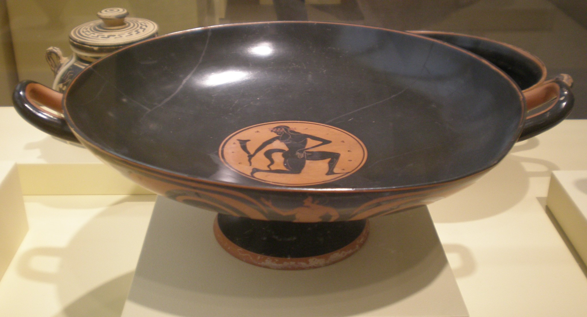 An Athenian black terra cotta eye-cup (ca. 520 BC) on display at the Iris & B. Gerald Cantor Center for Visual Arts on the Stanford University campus in Stanford, California.